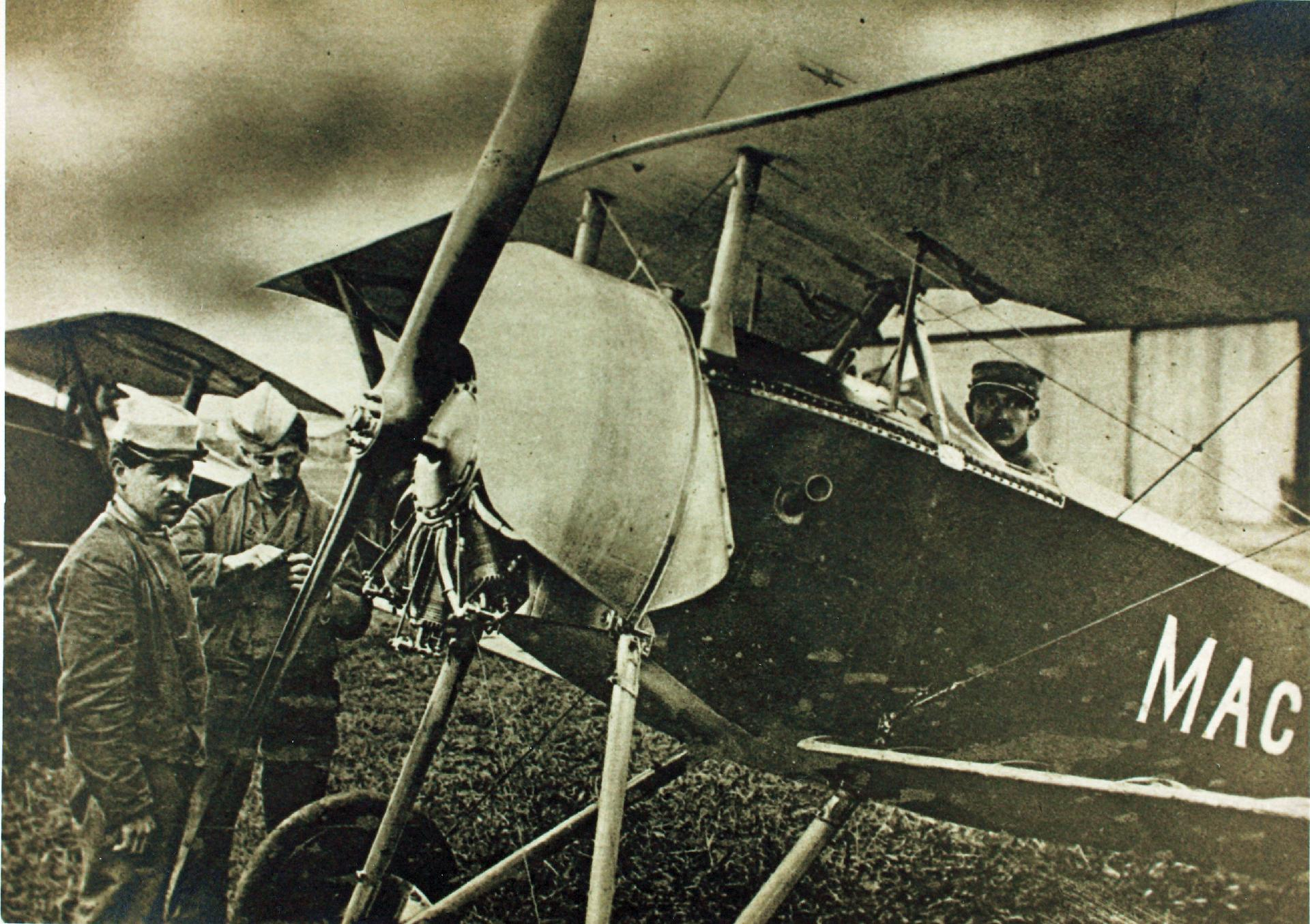 Nieuport 11 of the Escadrille Américaine flown by Sgt Douglas Mac Monagle